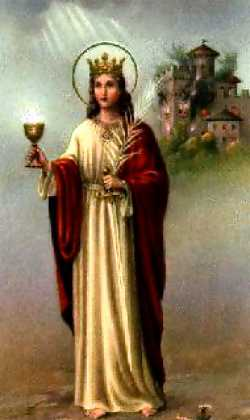 Saint Barbara